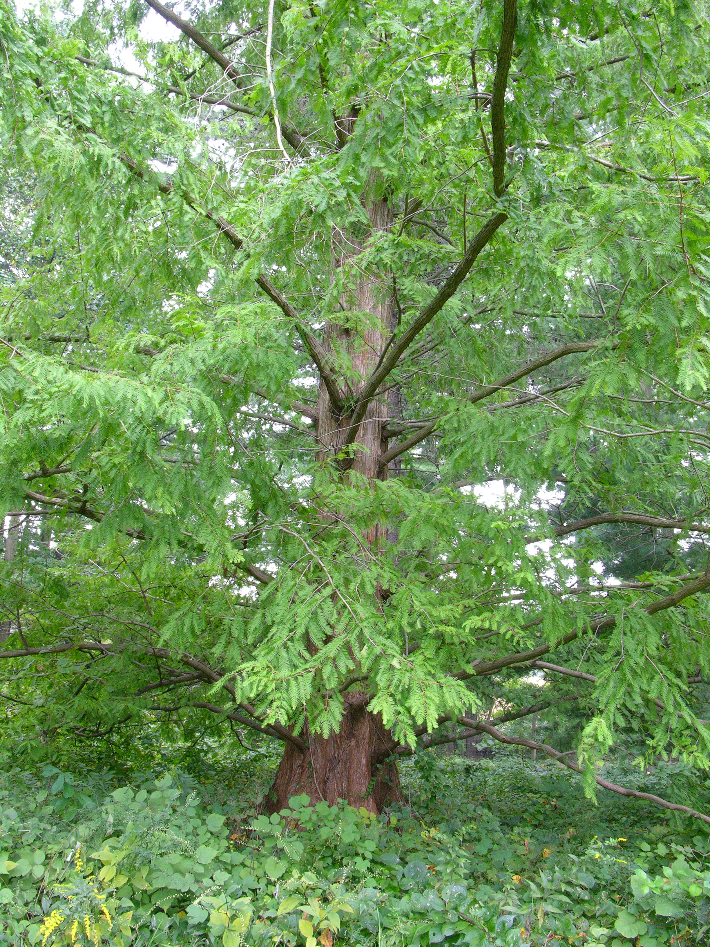 Photograph of the Dawn Redwood (Metasequoia glyptostroboides) tree. Photo taken at the Tyler Arboretum where it was identified.